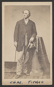 Photo from the U.S. House of Representatives Collection